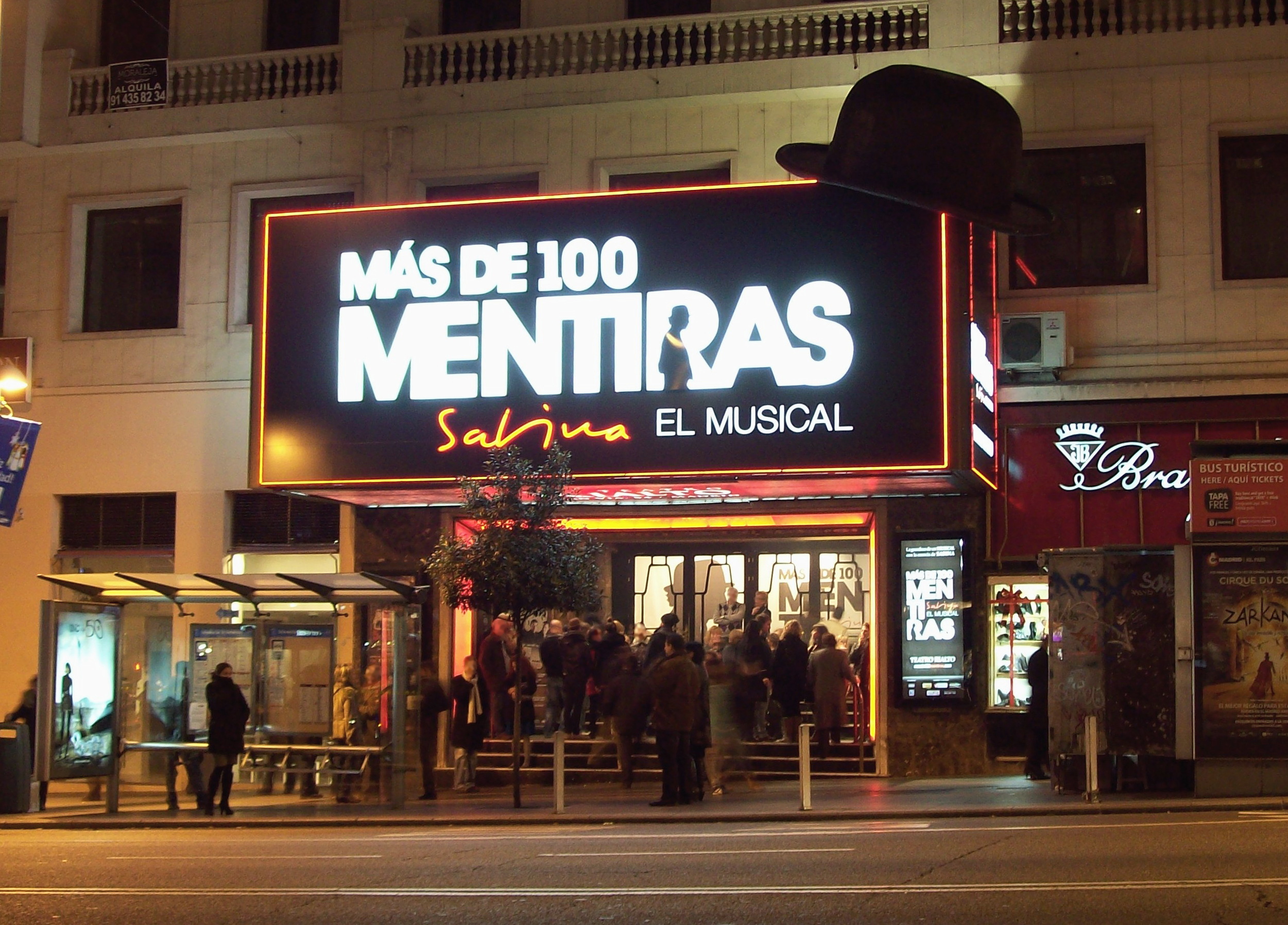 The musical Más de cien mentiras at Rialto Theater in Madrid (Spain).